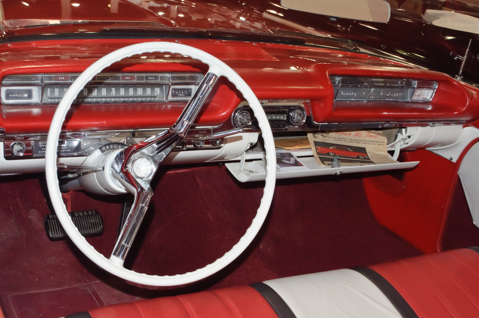 Completely restored in 2008 with authentic parts. What a beautiful car! The 98 was traditionally the top of the Oldsmobile range. Not as stylish as a contemporary Cadillac De Ville (though it comes close), but it is practically the same car. The 98 continued to be redesigned and produced into the 1990s, even though the Oldsmobile brand's reputation had been way diminished by then, and the brand was phased out in 2004. My preferred classic Oldsmobile would more likely be a workhorse - a 1970s-1980s Cutlass, which was not only the best-selling automobile of its day, but also extremely well-built and durable. Seen at Barrett-Jackson Auction.